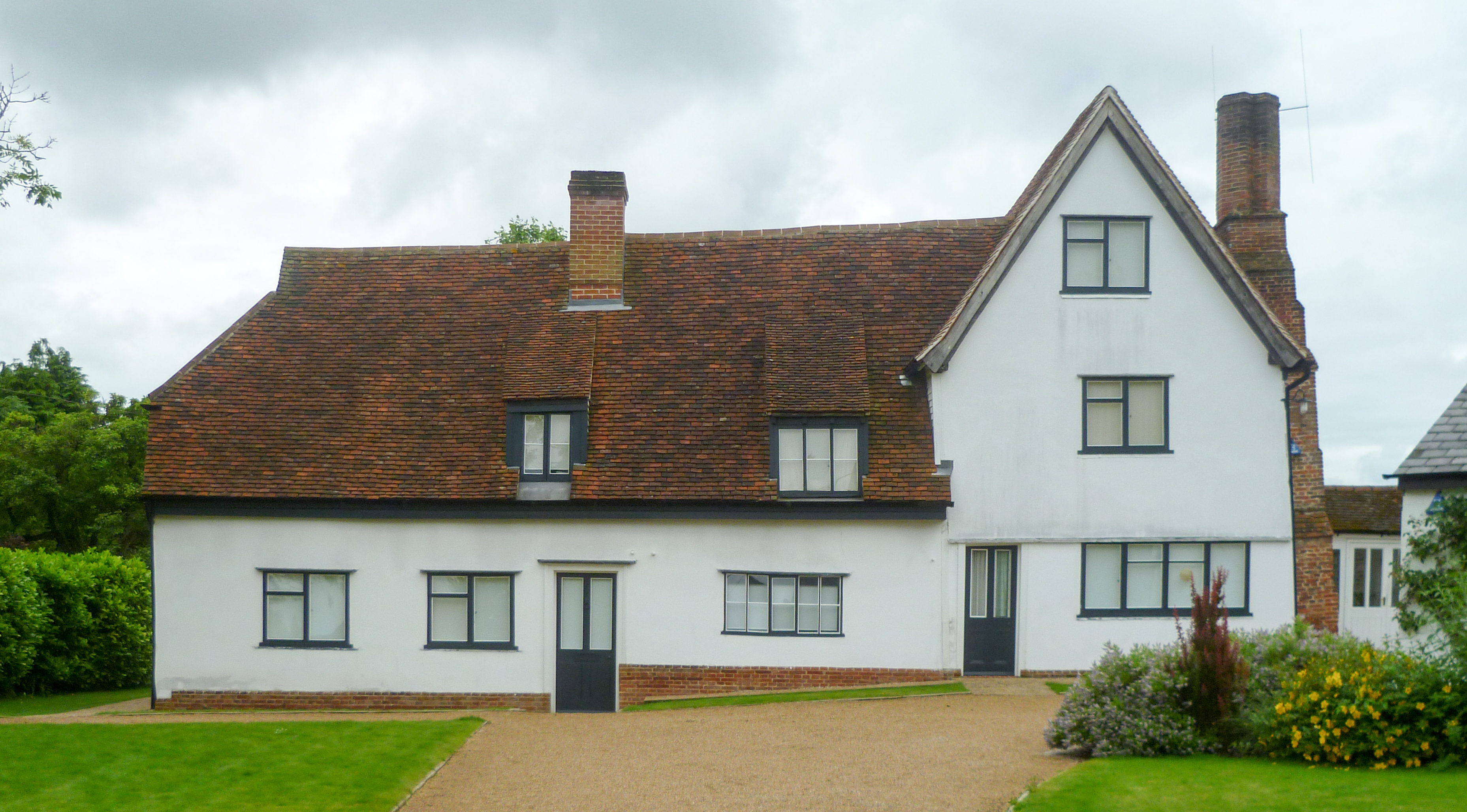 Henry Moore's house, now the headquarters of the Henry Moore Foundation. Hoglands, Perry Green, Hertfordshire, England.